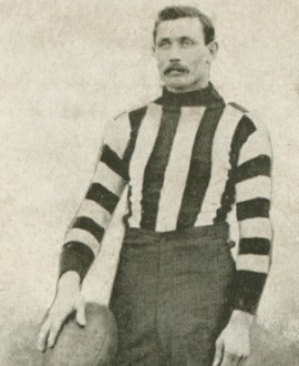 Photograph of George Angus in 1910